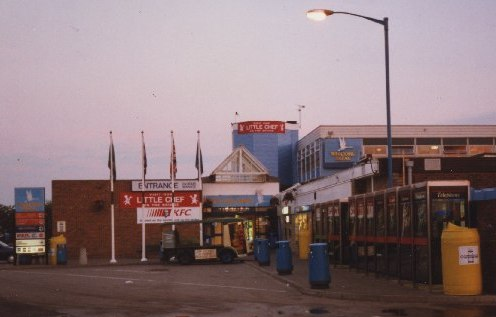 Keele Service Station The service station on the M6 very early in the morning.